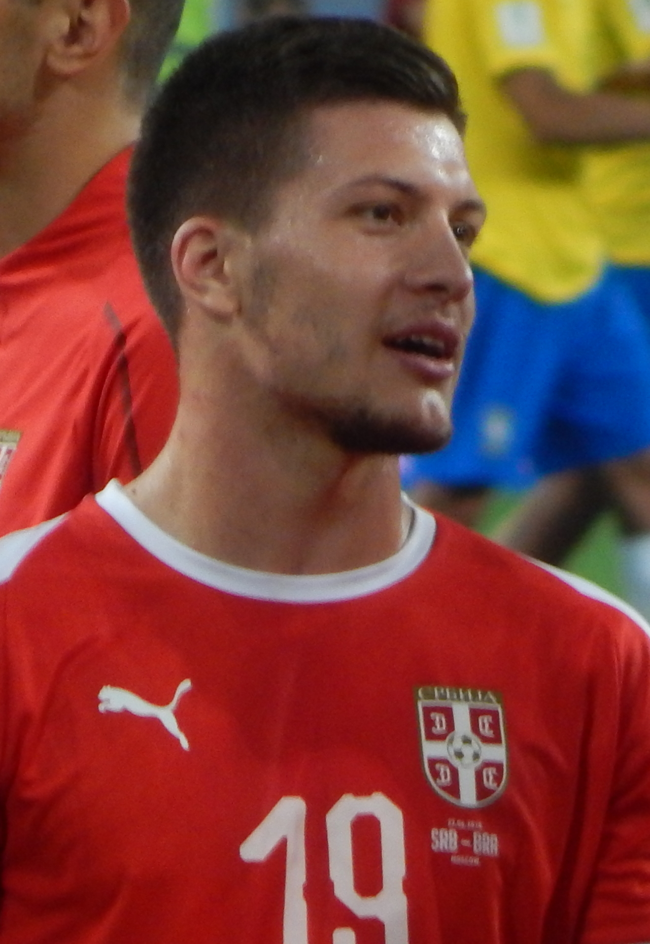 FIFA World Cup 2018, Group E, Serbia vs. Brazil